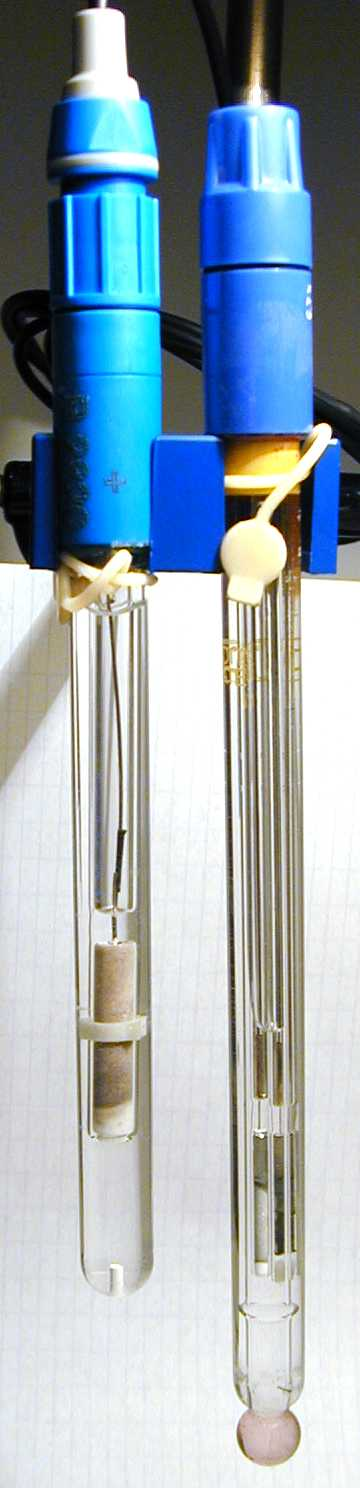 silver-silverchloride reference electrode and pH glass combination electrode